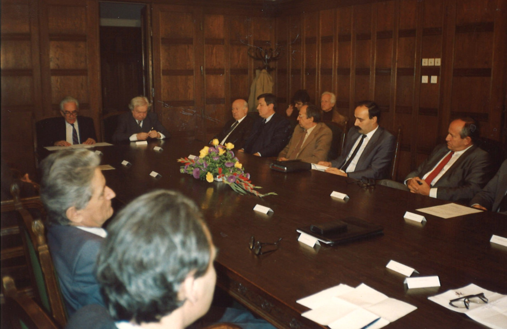 Assembly of founders of SANU, Aleksandar Despić and Dušan Kanazir, 1989. year